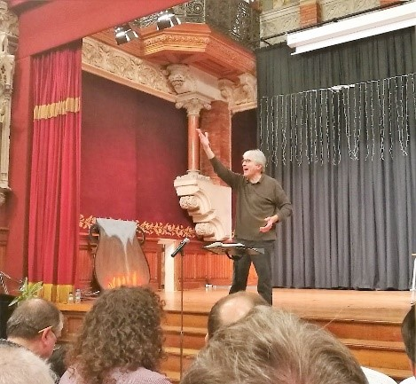 Abans de la realització de l'oratori, cal alguna sessió d'assaig amb la persona que n'assumirà la direcció.